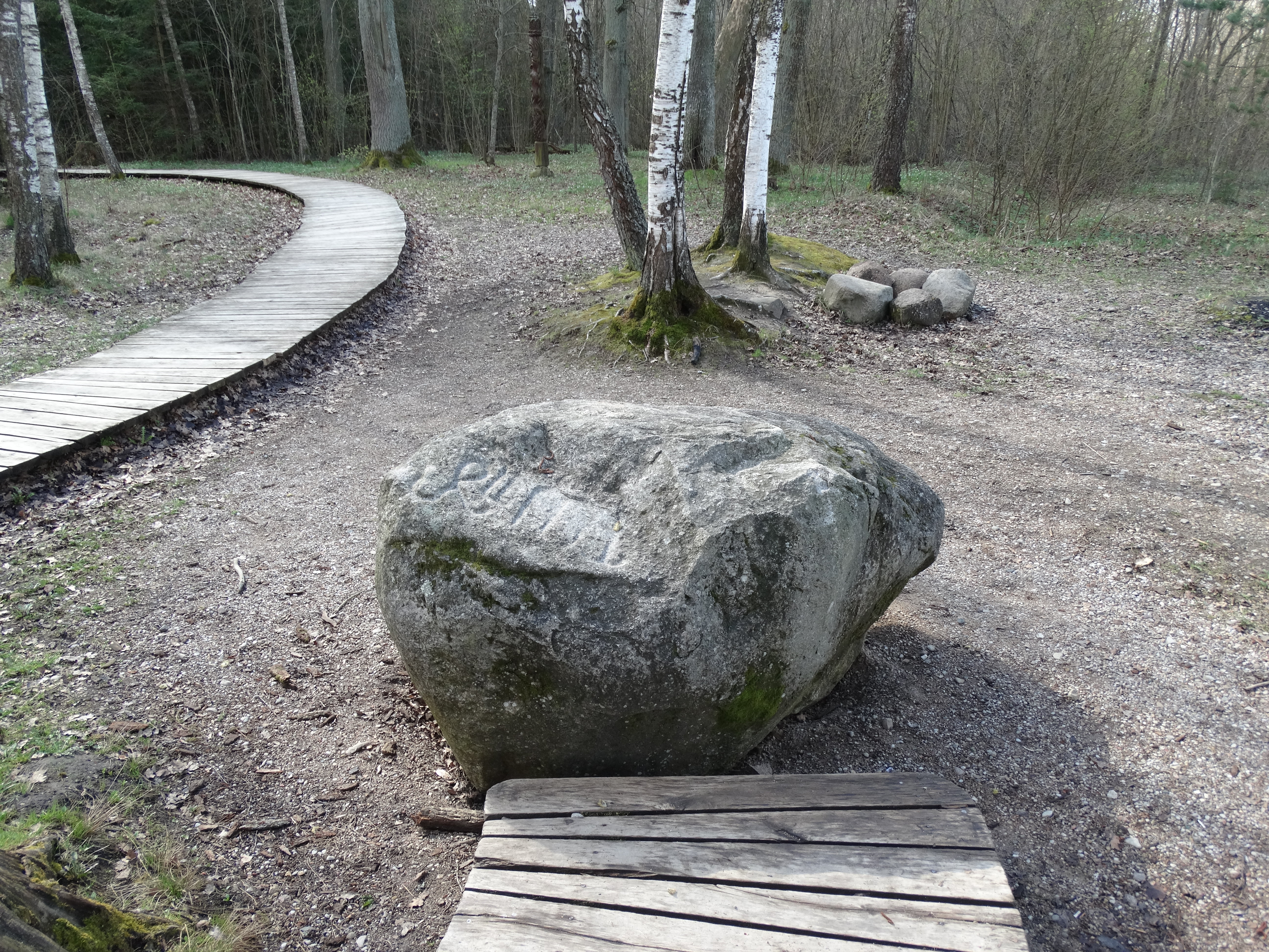 Bradeliškės (Airėnai) stone with signs, Vilnius district, Lithuania